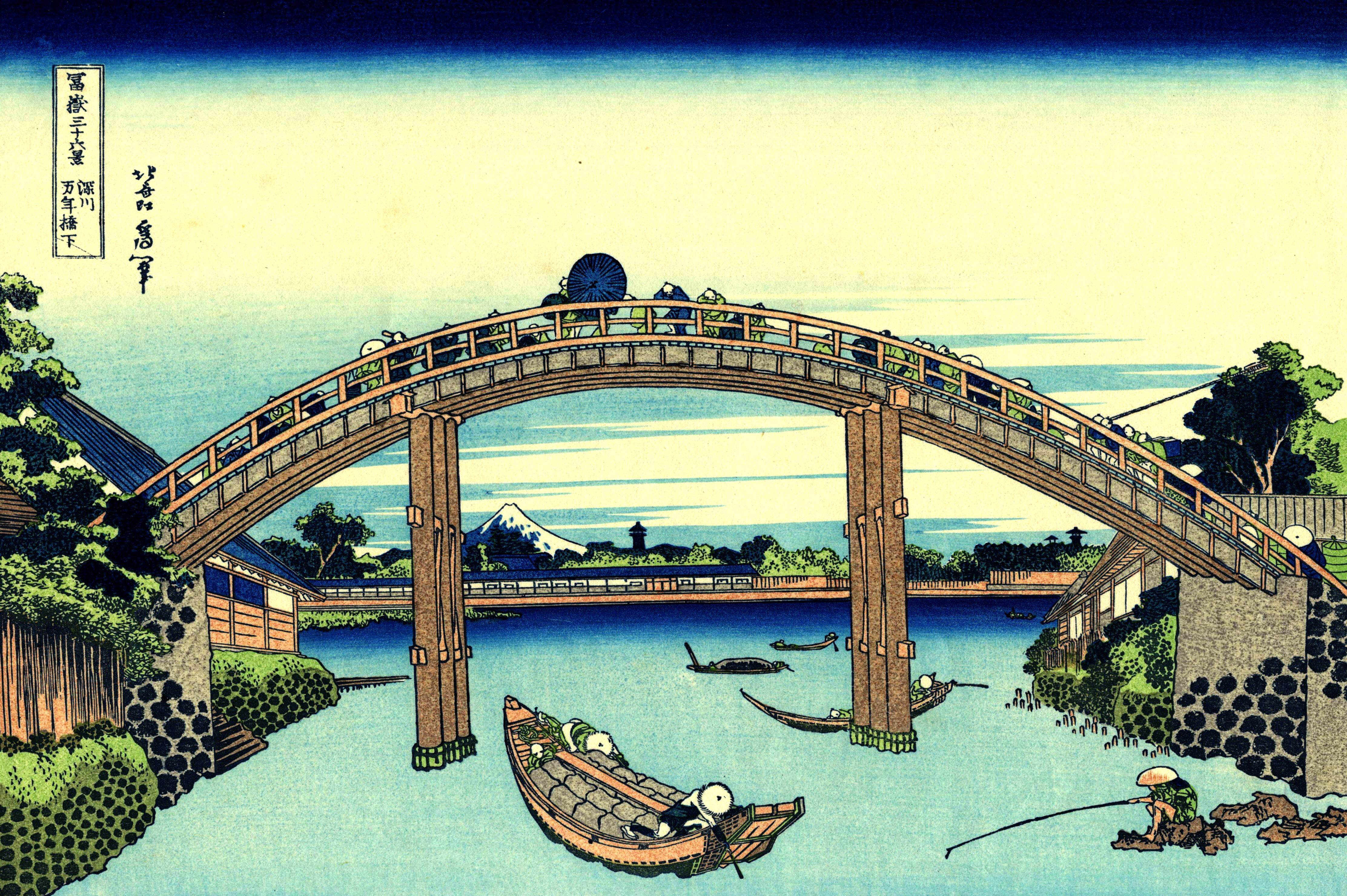 Part of the series Thirty-six Views of Mount Fuji, no. 06.